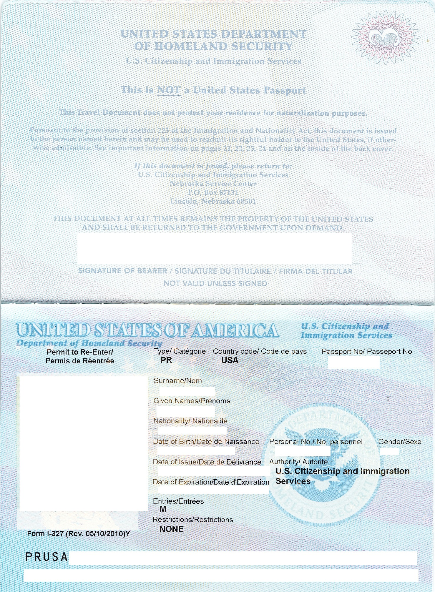 This is a form of Travel Document issued to United States Permanent Residents to re-enter the United States after an extended period of absence.